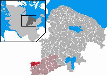 This map shows the area of the Gemeinde (municipality) Großharrie in the Kreis (district) Plön, Schleswig-Holstein, Germany.